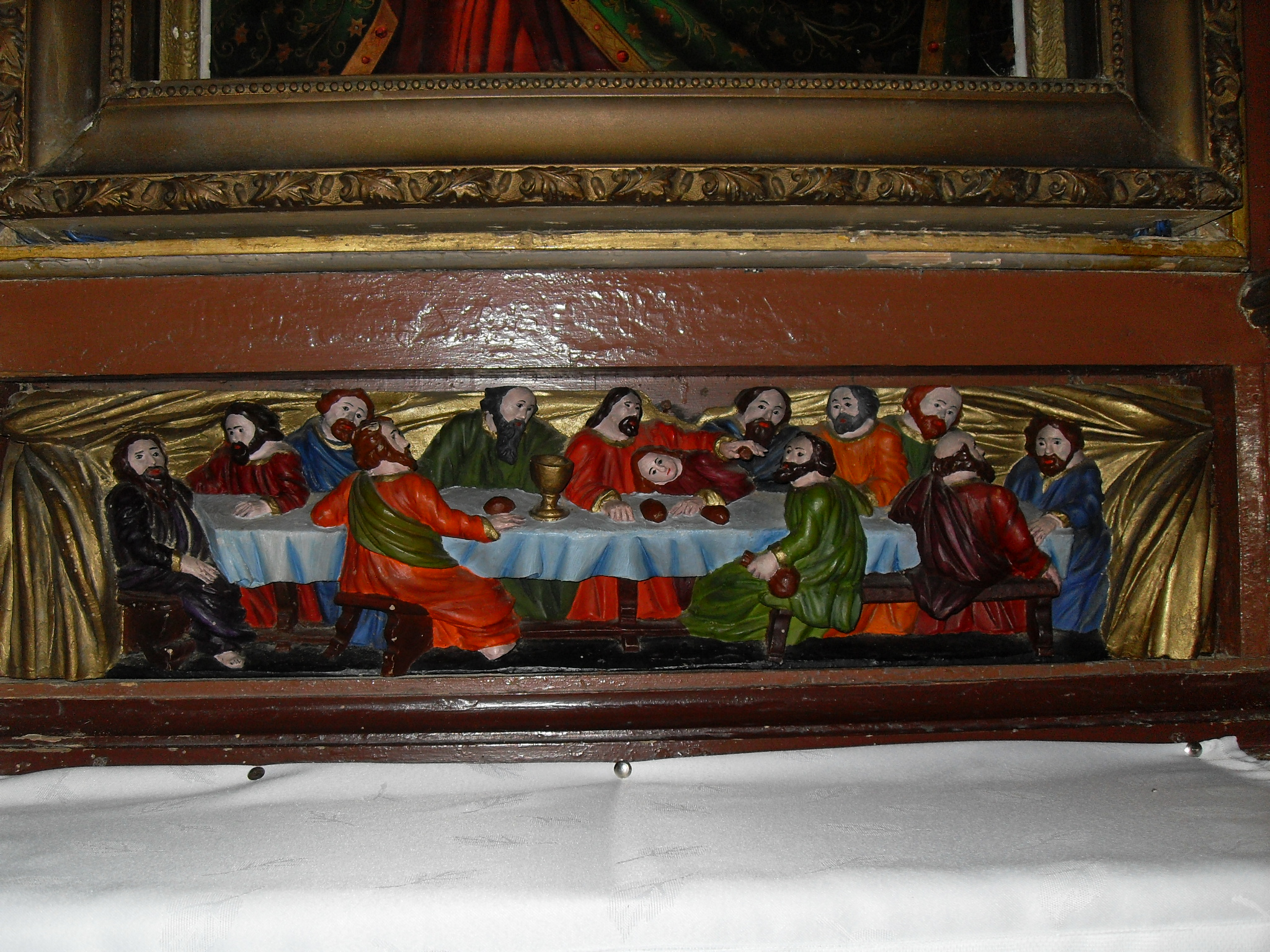 Our Lady of Częstochowa church in Karścino, Poland